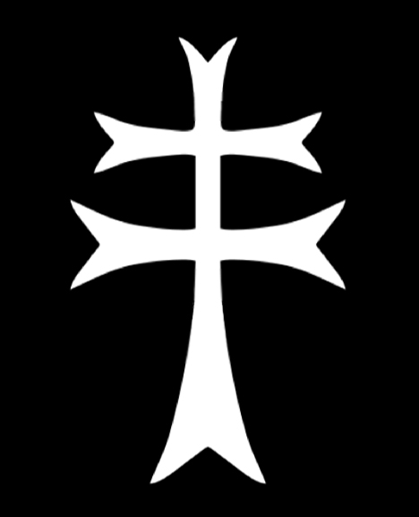 St Esprit